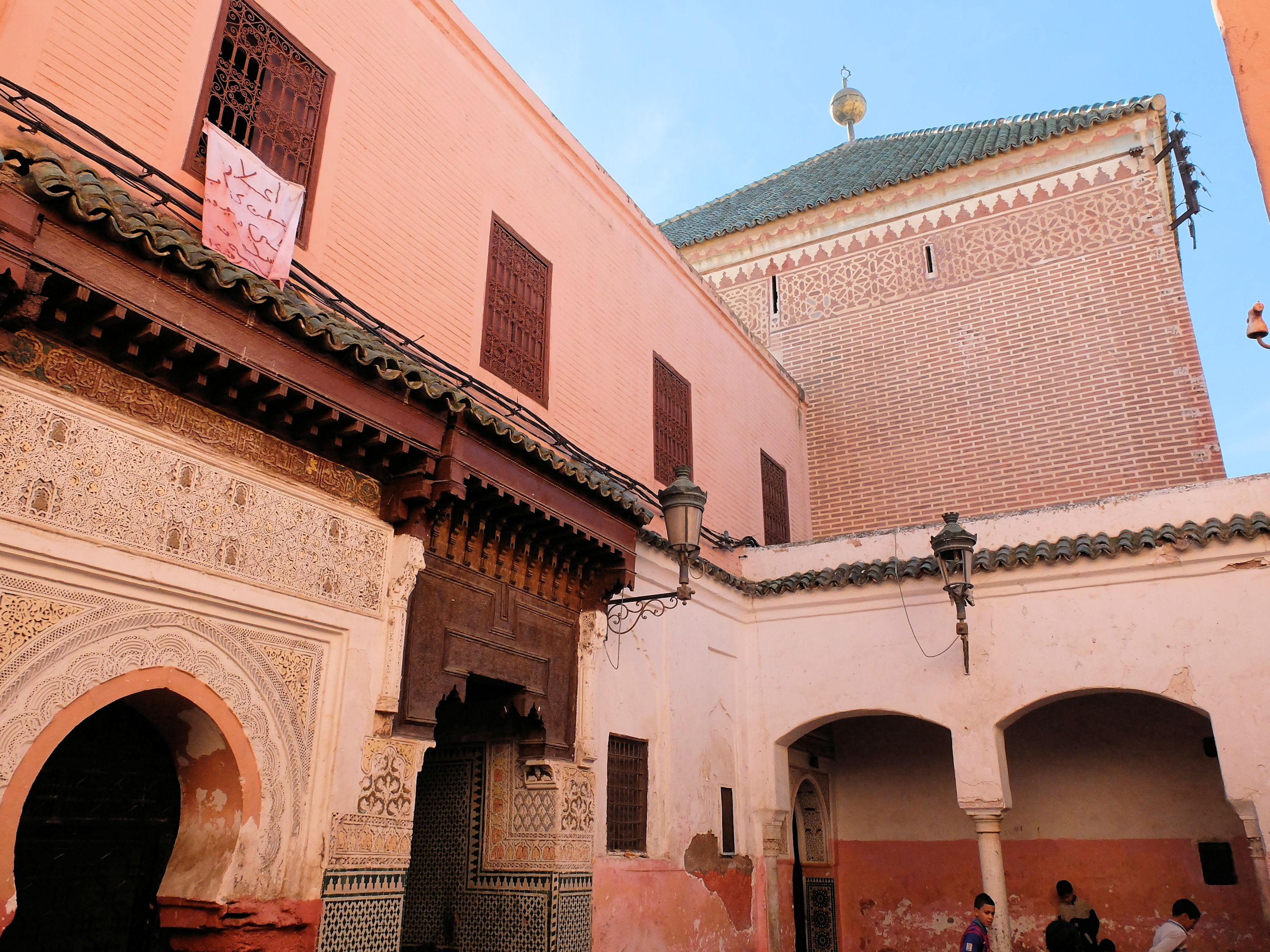 Northern side of the Zawiya of Sidi Muhammad Ben Slimane al-Jazuli. The structure with the green pyramidal roof is (probably) the tomb chamber. On the left below is the street fountain and another archway.